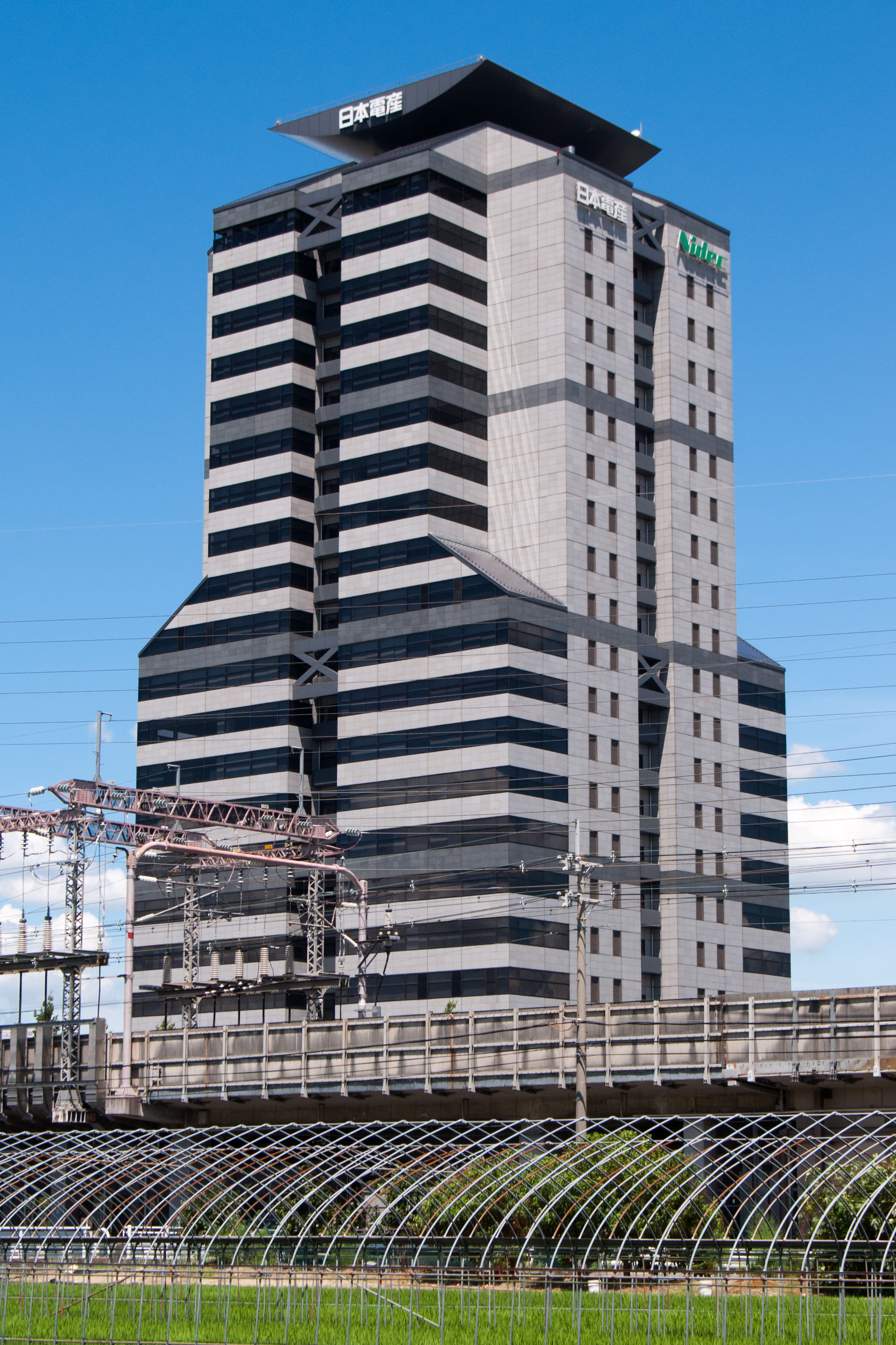 Photograph of the southwest view of Nidec Headquarters and Central Technical Laboratory in Minai-ku, Kyoto, Kyoto Prefecture, Japan.